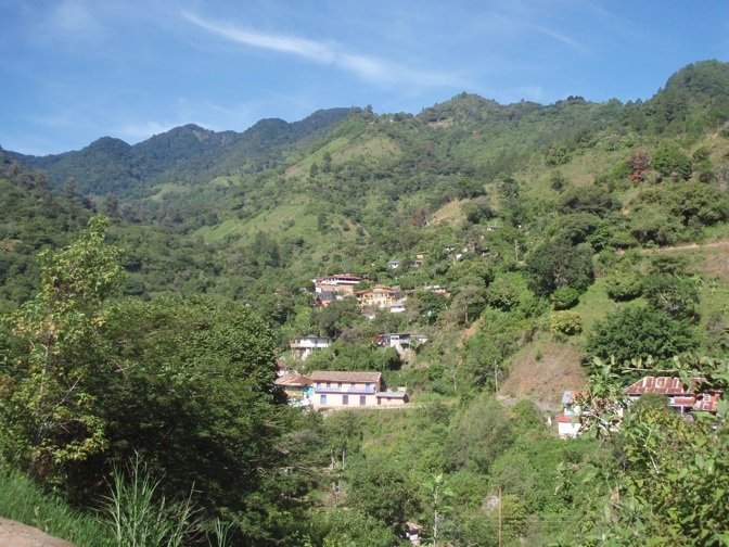 Partial view of the upper neighborhood of San Juancito, Honduras.